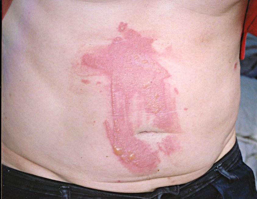 Probably a very inentense reaction of Urticating hairs of a theraphosid spider in Argentina on a male human belly. Or a reaction on something else